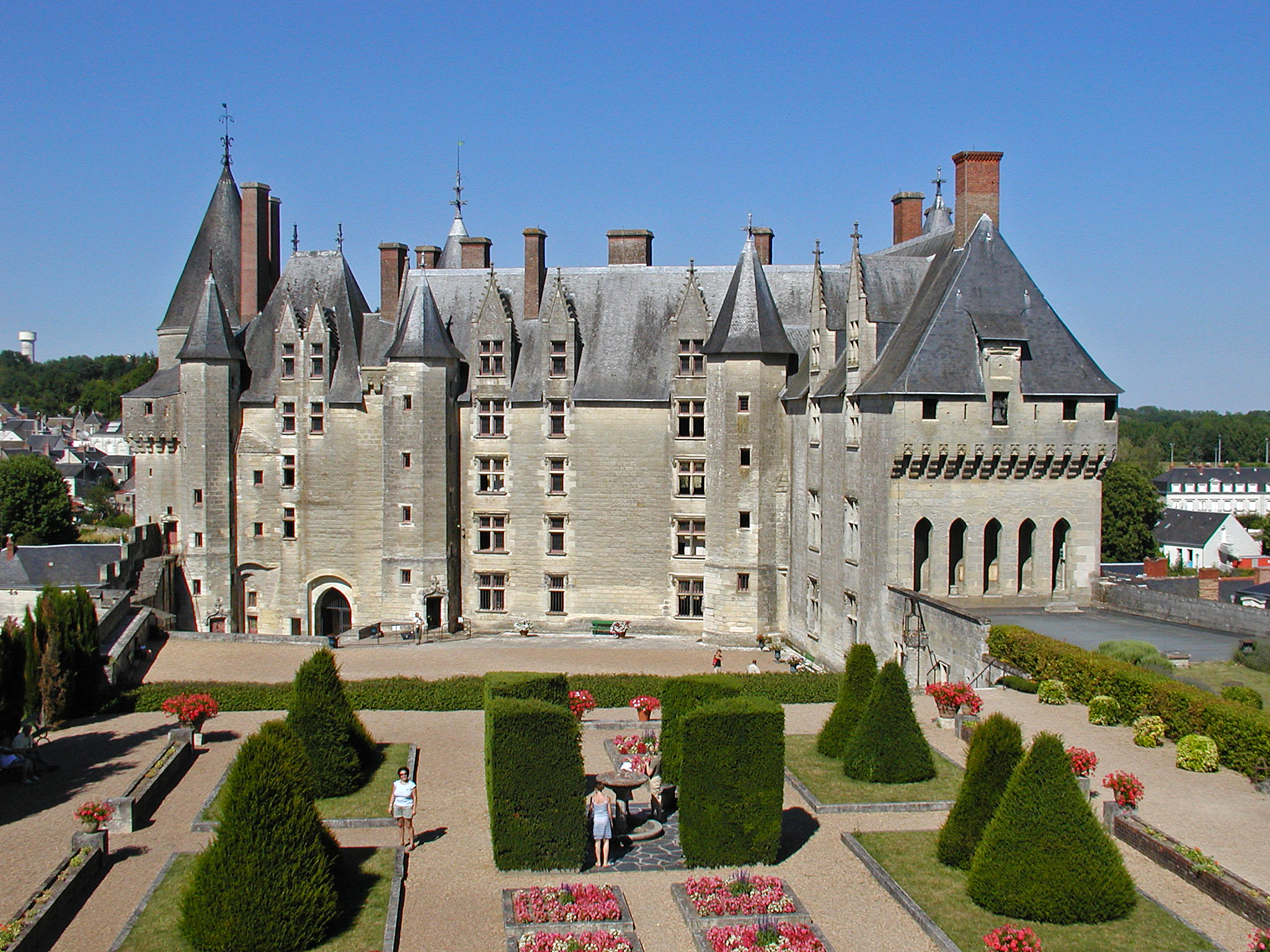 Langeais Castle is one of the castles of the Loire. Originally built by Foulques Nerra the tenth century, it was destroyed by the English during the Hundred Years War. It is now owned by the Institut de France.